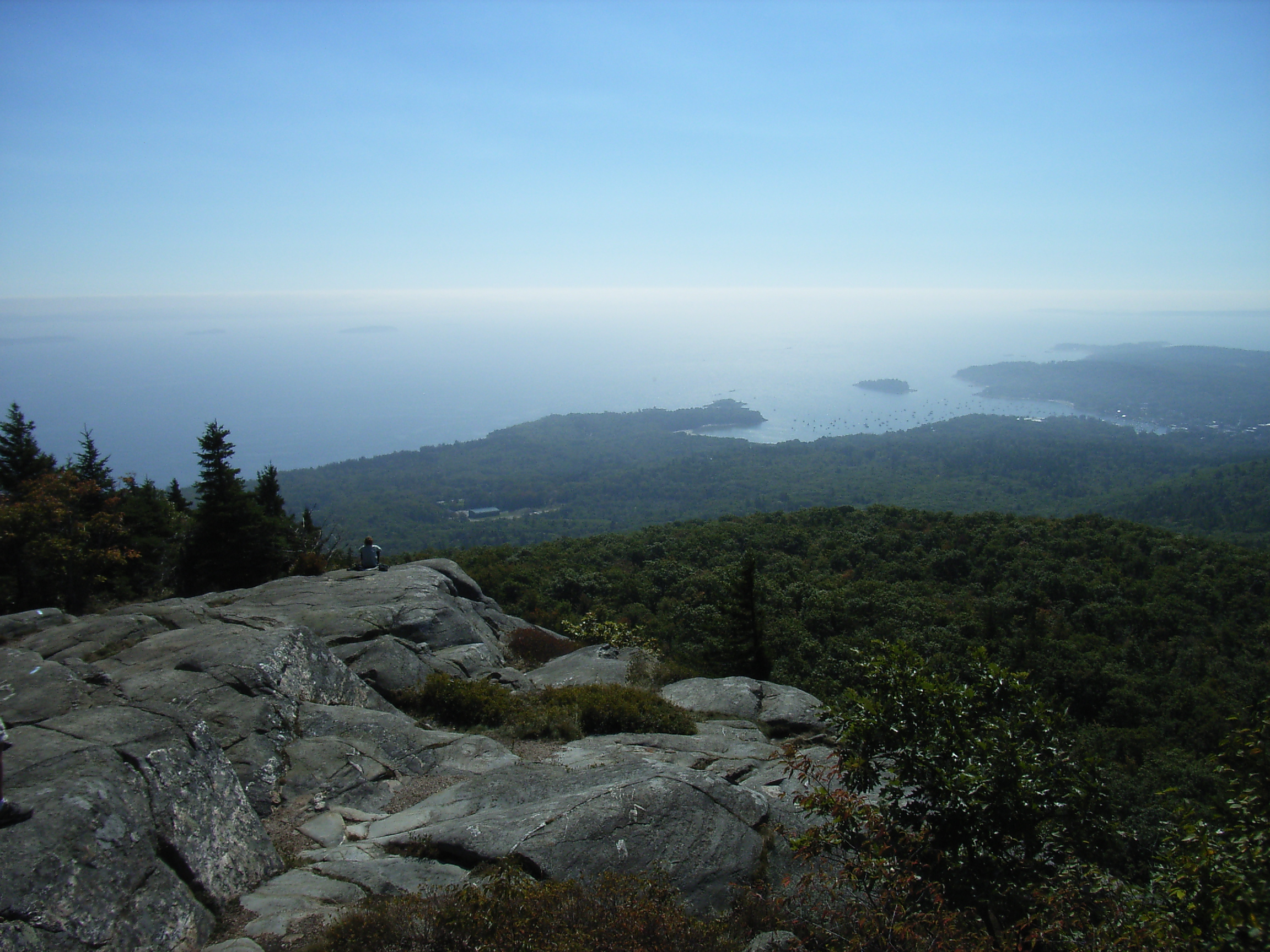 Camden, Maine, photographed from Ocean Outlook in Camden Hills State Park (on Megunticook Trail and Tablelands Trail)